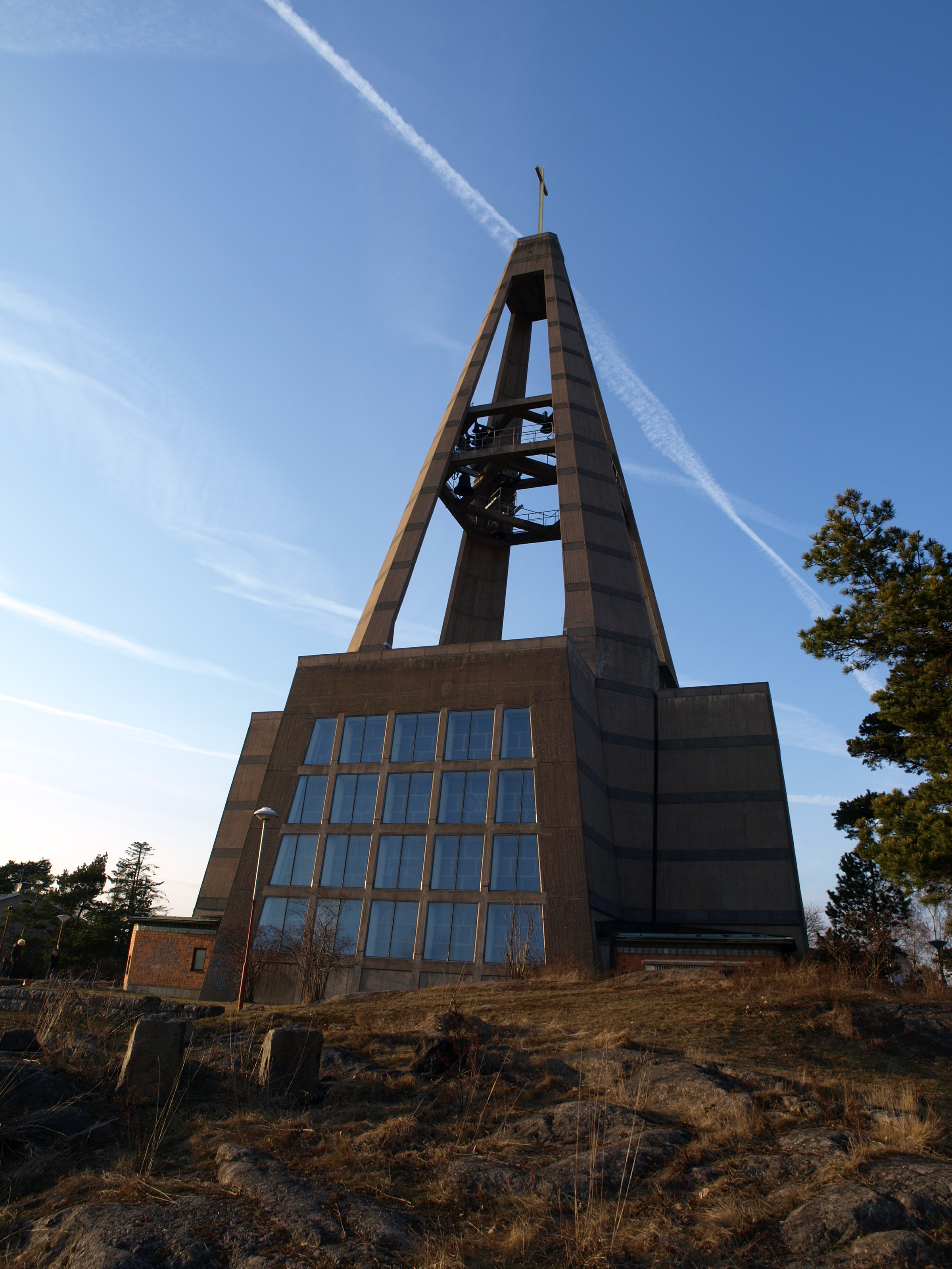 Saint Botvids church